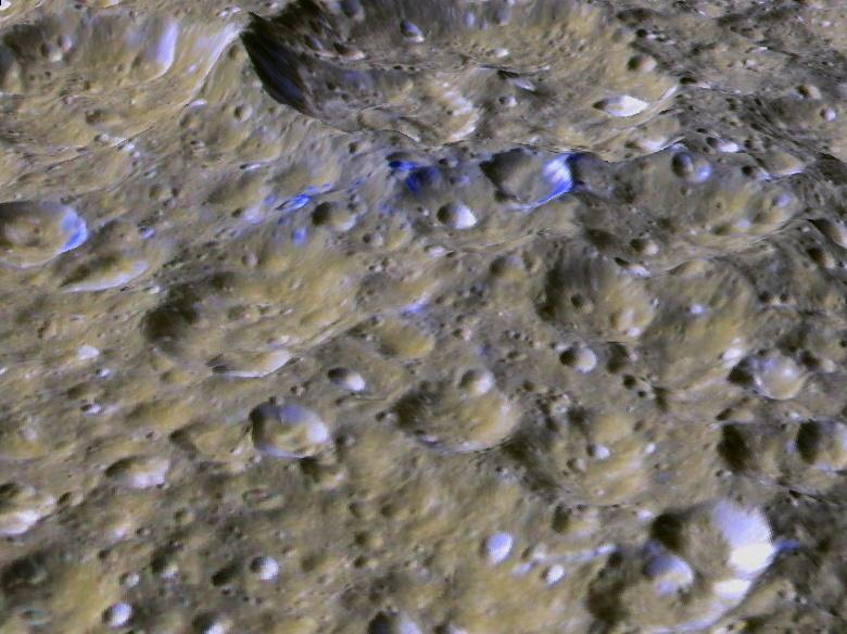 The Cassini orbiter has revealed many surprises within the Saturn system, including the possible presence of a ring of debris surrounding the ancient heavily cratered surface of Rhea, Saturn's second largest moon. Until now, no direct visual evidence of Rhea's suspected ring has been detected. This perspective view shows one of a series of relatively blue patches that form a very narrow band only 10 kilometers wide that straddles Rhea's equator. This view was created using stereo topography generated by Dr. Paul Schenk ( of the Lunar and Planetary Institute in Houston Texas from Cassini imaging data returned in 2008. The bluish material is believed to be fresh ice reexposed when material from Rhea's ring struck the surface along the equator, and is a target of investigation for the March 2 Cassini flyby of Rhea. The largest craters shown here are about 20 to 30 kilometers wide and 3 to 5 kilometers deep. This view is looking toward the south. The colors have been enhanced to highlight the color differences between these patches and the more typical cratered terrains of Rhea. The raw data from which this product was developed were retrieved from the Planetary Data System's Cassini archives. The Cassini-Huygens mission is a cooperative project of NASA, the European Space Agency and the Italian Space Agency. The Jet Propulsion Laboratory, a division of the California Institute of Technology in Pasadena, manages the mission for NASA's Science Mission Directorate, Washington, D.C. The Cassini orbiter and its two onboard cameras were designed, developed and assembled at JPL. The imaging operations center is based at the Space Science Institute in Boulder, Colo. ( Data processing for this image was performed at the Lunar and Planetary Institute in Houston, Texas.